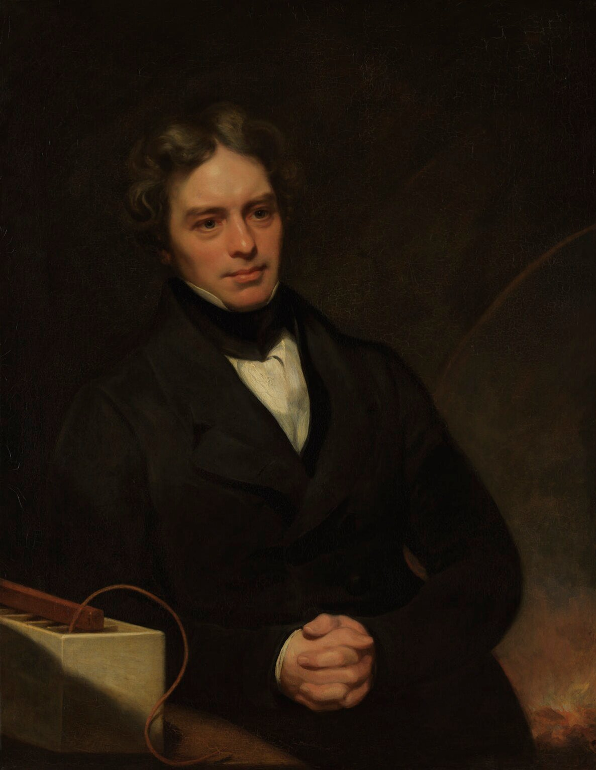 Michael Faraday by Thomas Phillips oil on canvas, 1841-1842 35 3/4 in. x 28 in. (908 mm x 711 mm) Purchased, 1868 NPG 269